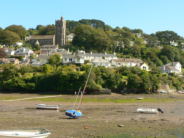 Noss Mayo